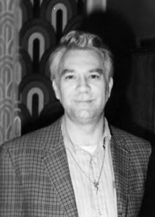 Photo of Bill Porter at the Las Vegas Hilton on August 5, 1972. Bill Porter was a Nashville sound engineer who worked on many of Presley's recordings in the 1960s.